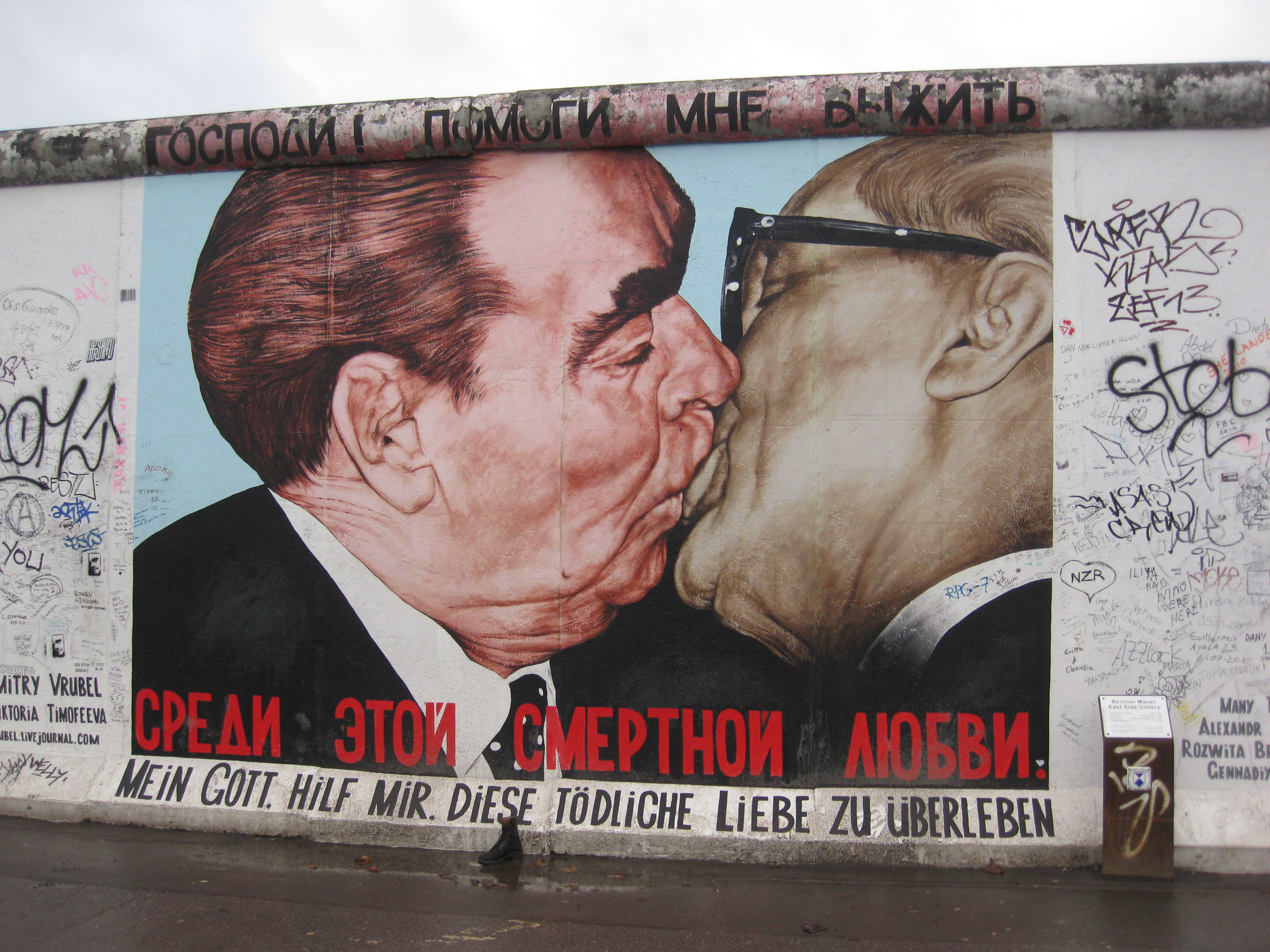 The east side Gallery in Berlin, Mühlenstraße 45–80, Dmitri WrubelThis is a photograph of an architectural monument.